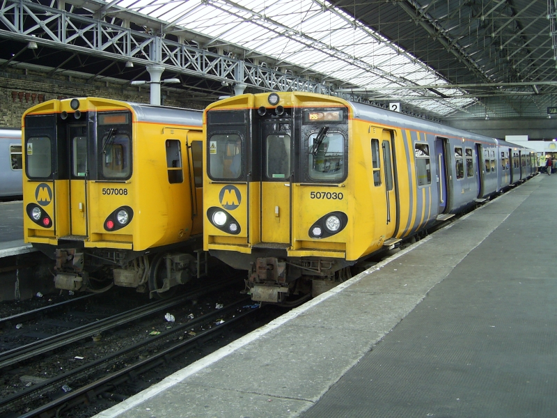 Merseyrail units 507008 and 507030 seen in bay at Southport railway station. (C) myself, James Rawlinson, 2005.